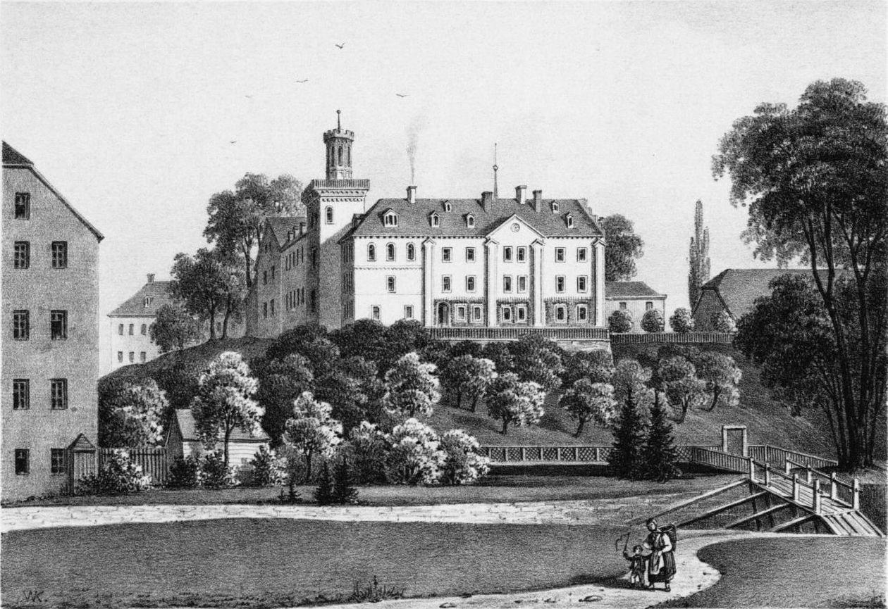 manor Erdmannsdorf in its estate of 1859